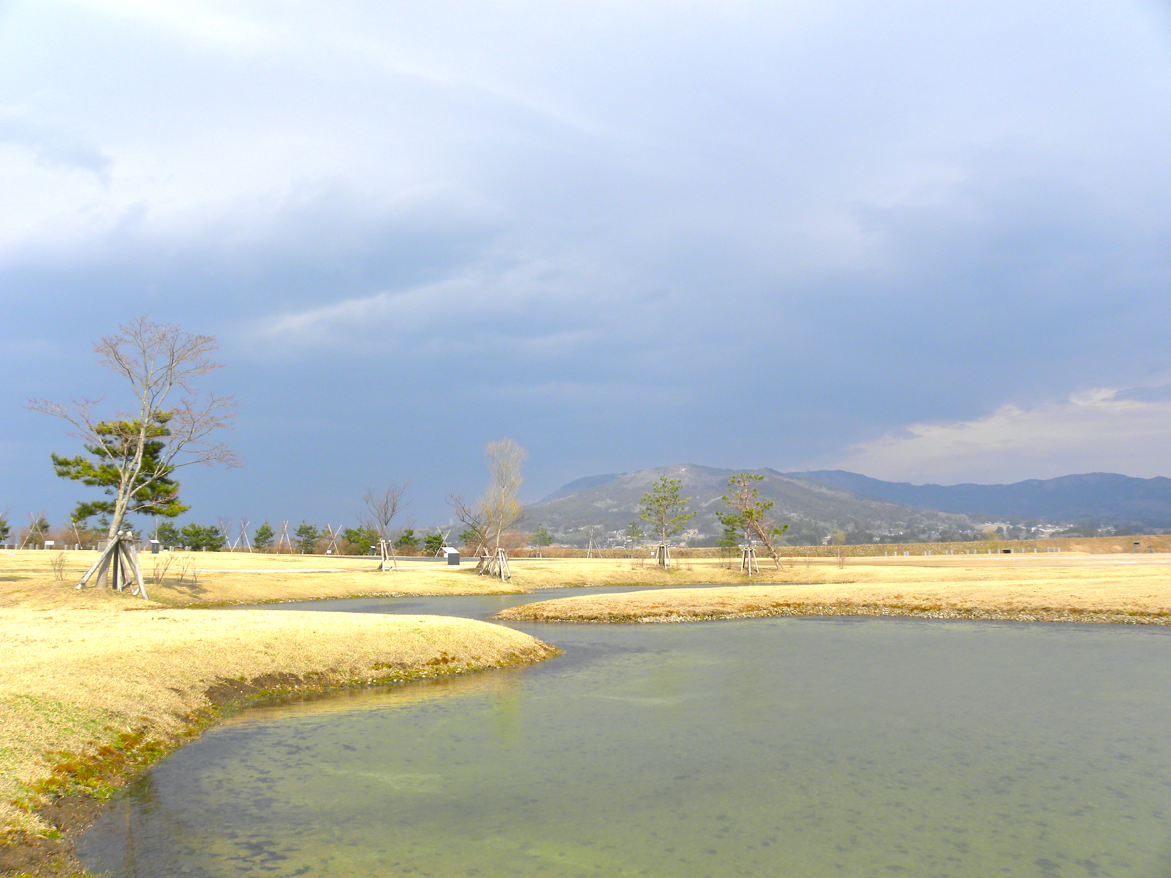 Historic Park of Yanaginogosho Site, Hiraizumi, Japan